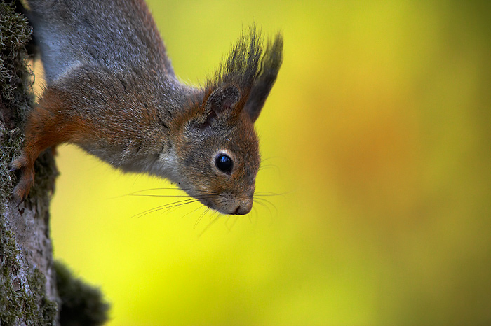 Eurasian red squirrel (Sciurus vulgaris) photographed in Tartu County, Estonia.